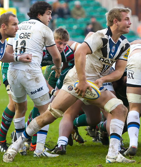 Leicester Tigers vs Bath, Aviva Premiership, Welford Road, Saturday 1st December 2012